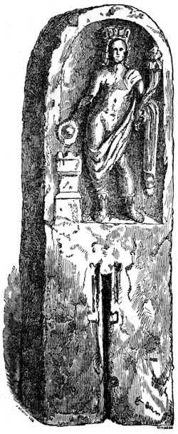 Found in Netherby, are preserved on the spot. Amongst them is one which is figured on the adjoining page. A youth stands in a niche, a mural crown is on his head, a cornucopia in his left hand, and a patera, from which he pours out a libation on an altar, in his right; it is one of the finest carvings that is to 353be met with on the line of the Wall. From the grooves which are cut in the lower part of the stone, Genius of the Wallwe may naturally conclude, that the figure has been formerly set in masonry, perhaps to adorn the approach to some temple. Gordon supposes the figure to be intended for Hadrian; Lysons thinks that it was meant for the ‘Genius of the Wall of Severus’, Collingwood as ‘the Genius of the Barrier.